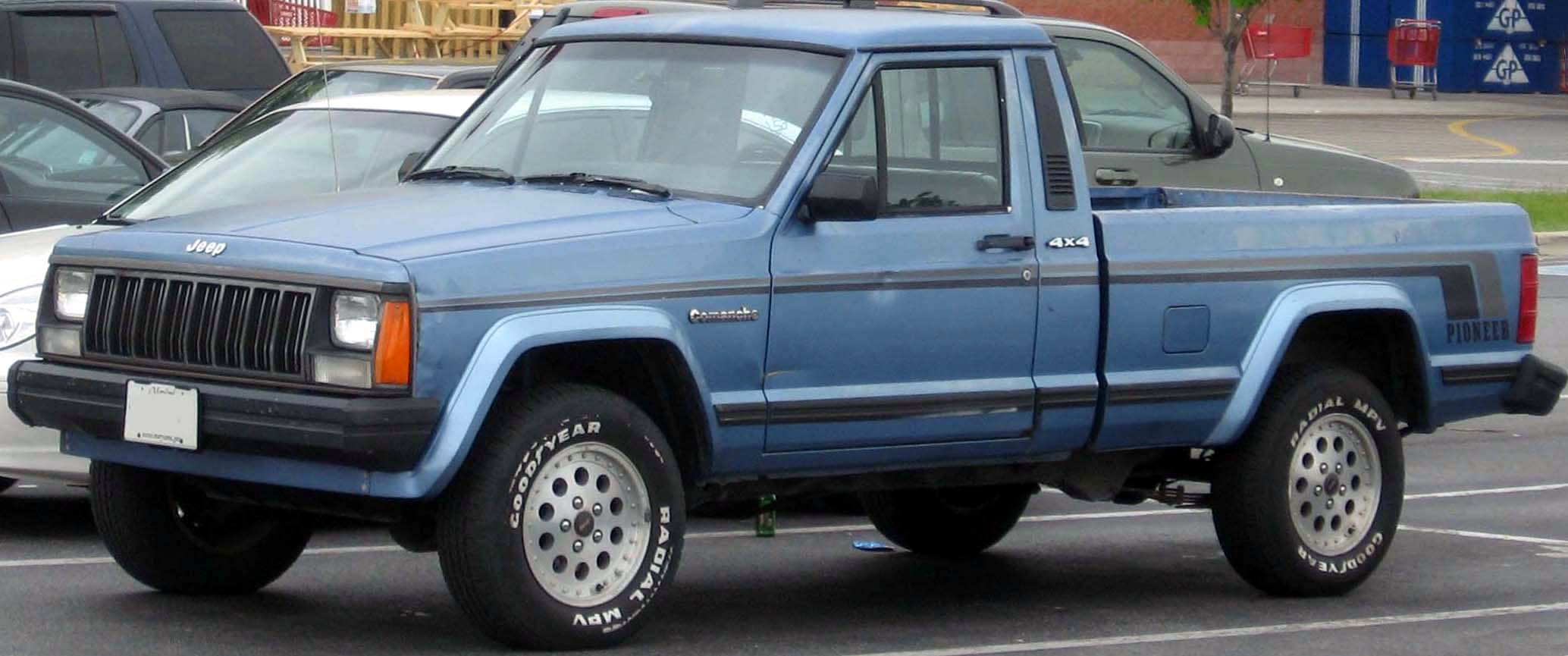 Jeep Comanche photographed in USA.